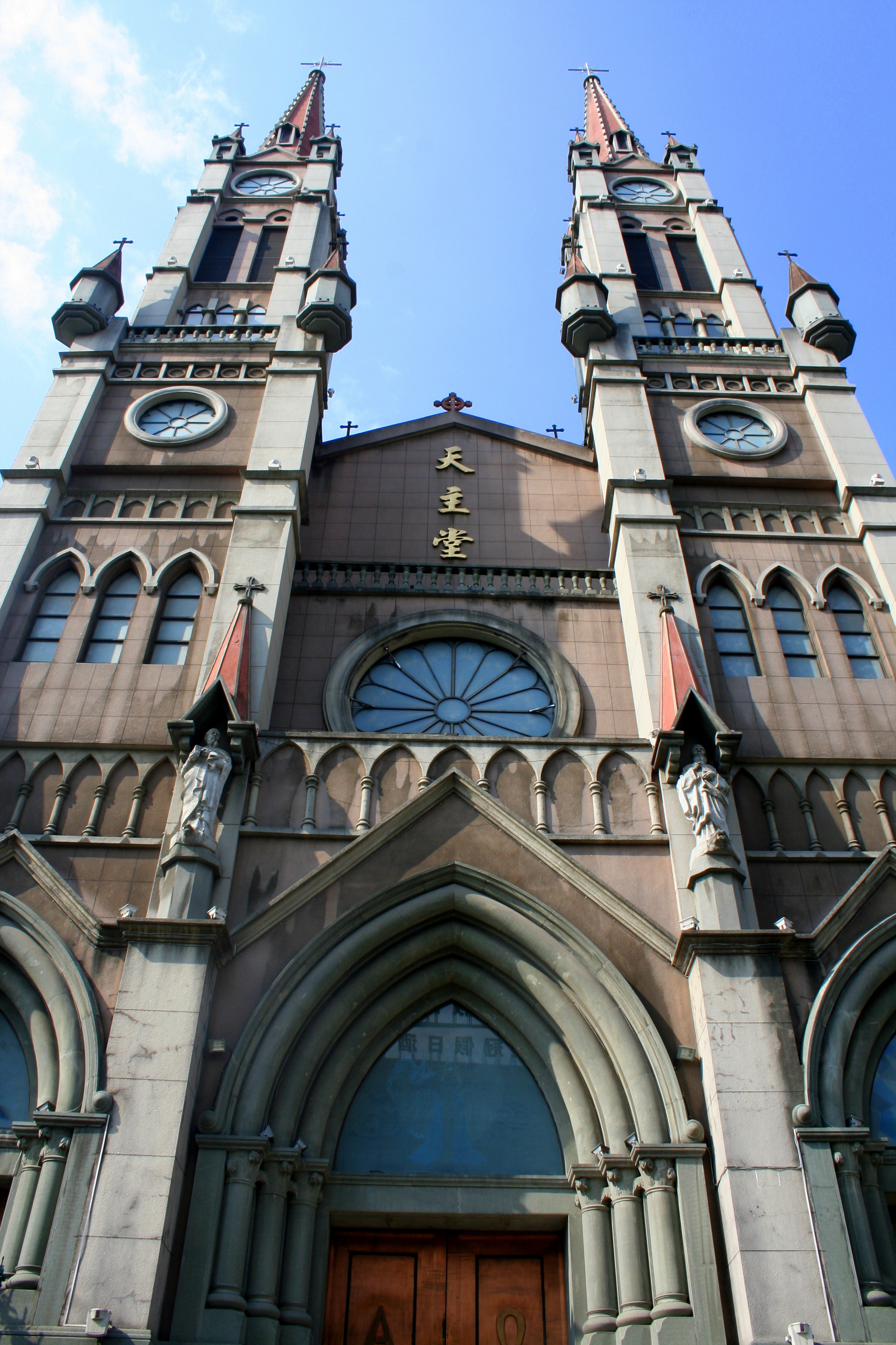 This is the Cathedral of the Sacred Heart of Jesus (耶稣圣心主教座堂) in Ningbo, China. It was built between 1872-1876, was closed by the government in 1963, and was reopened and renamed in 1980. It was recognized as a national heritage site in 2006.